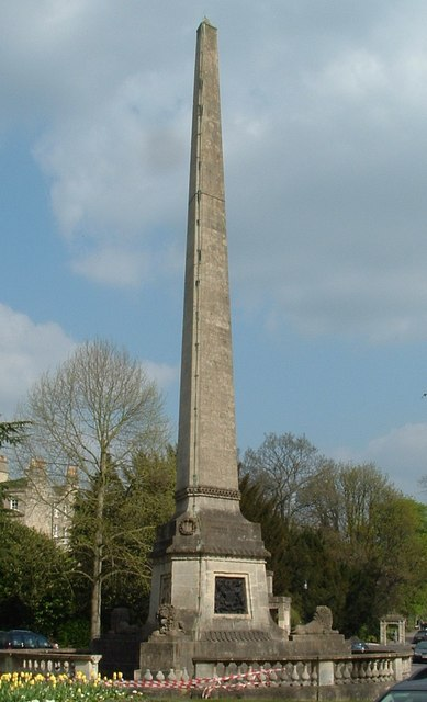 Obelisk, Cotswold way. Fine obelisk that divides Cotswold way, Botanic Gardens, Bath. It is dedicated at the base to princess Victoria.